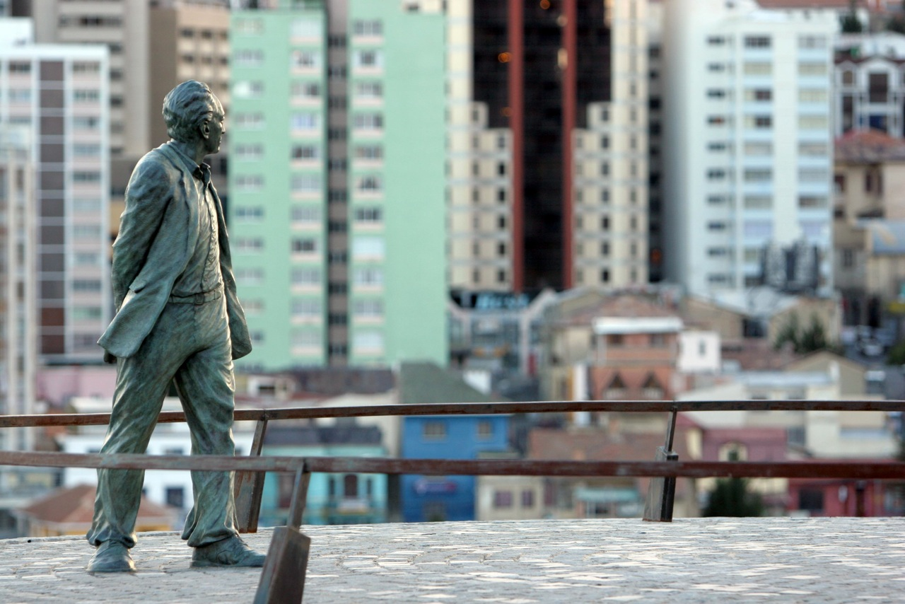 Bronze, stone and steel La Paz, Bolivia